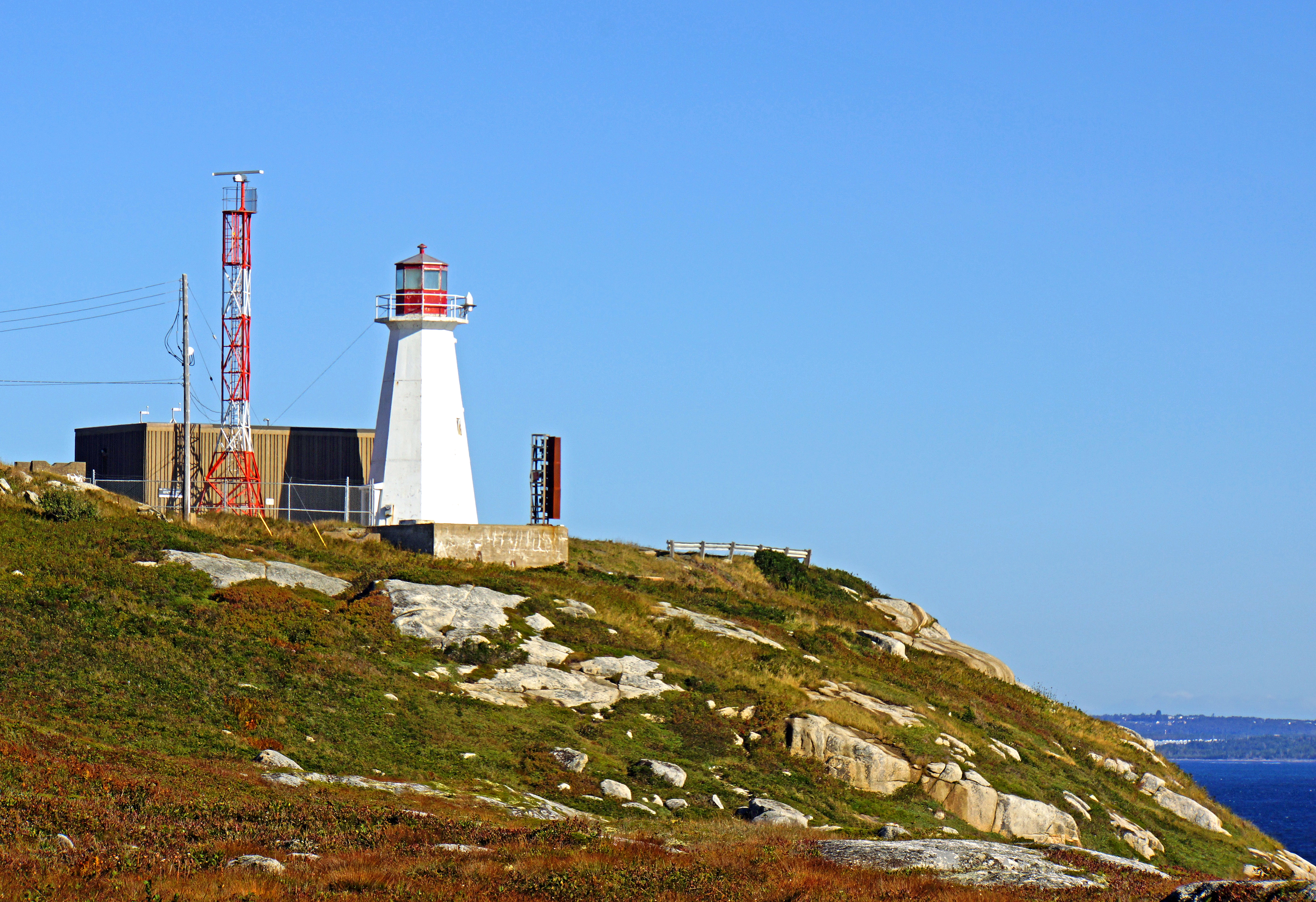 PLEASE, NO invitations or self promotions, THEY WILL BE DELETED. My photos are FREE to use, just give me credit and it would be nice if you let me know, thanks. Chebucto Head has had four different lighthouses and many keeper's houses. The first lighthouse at Chebucto Head, was built in 1872. The 3rd and wartime lighthouse had to be constructed when the Chebucto Head gun battery was built at the site. At this time a lighthouse at the head was needed to help guide the convoy vessels in and out of Halifax Harbour. Built to safeguard the movement of Battle of the Atlantic Convoys, it is directly associated with an important national event in Canadian history. The lighthouse today (4th) is a very popular destination for hikers, shipwreck divers and people for a great view of the ocean, passing ships and whales. Lighthouse Location: west entrance to Halifax Harbour Lighthouse Structure: Octagonal concrete tower, red aluminum lantern The lighthouse was built and first lit in 1967 Tower height: 13.7 m (45ft) Light height: 62ft (18.9ft) Light range: 25.75 km (16 m) Light characteristic: Flashing White (20sec). Light automated (destaffed): 1980